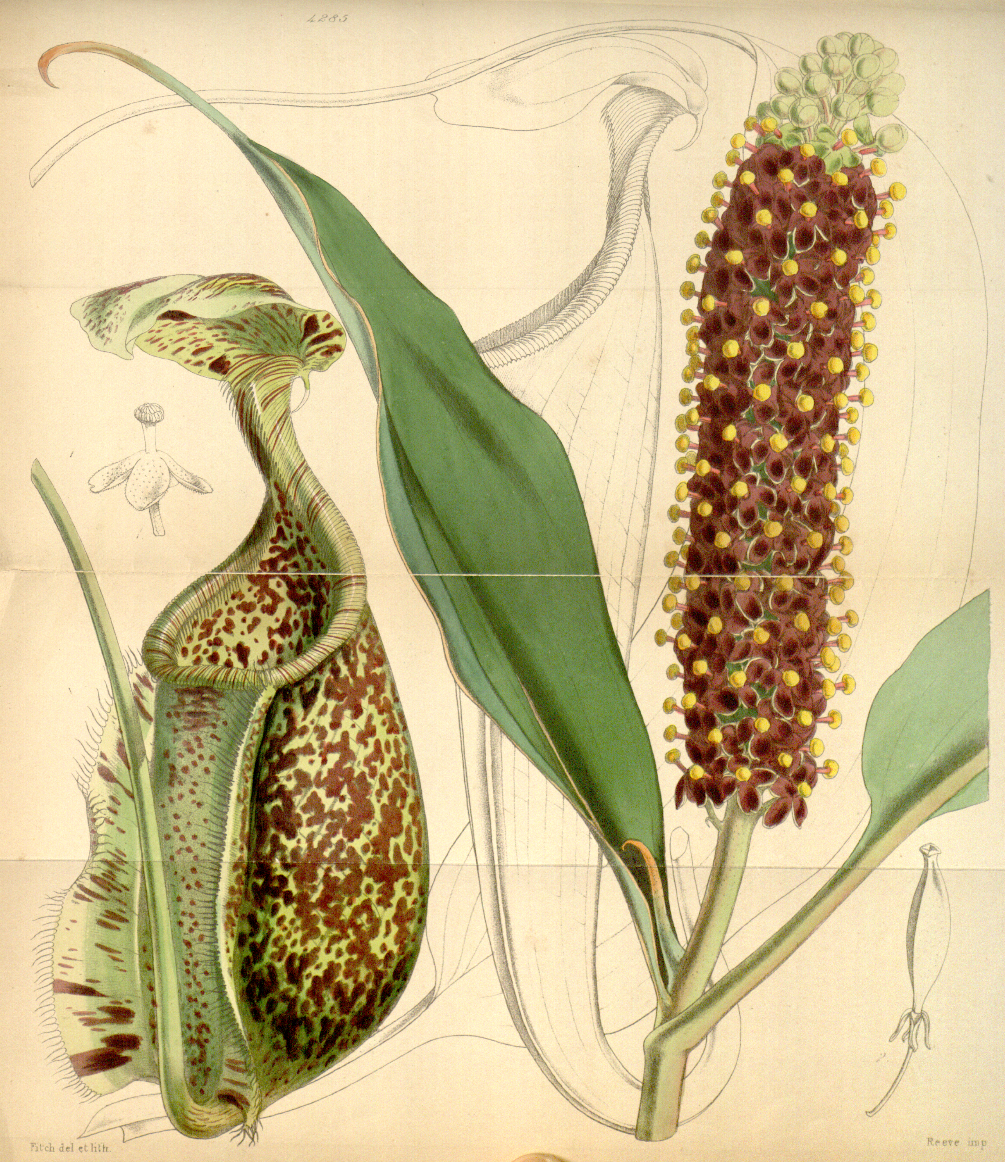 This is a plate from Curtis's Botanical Magazine, Volume 73.